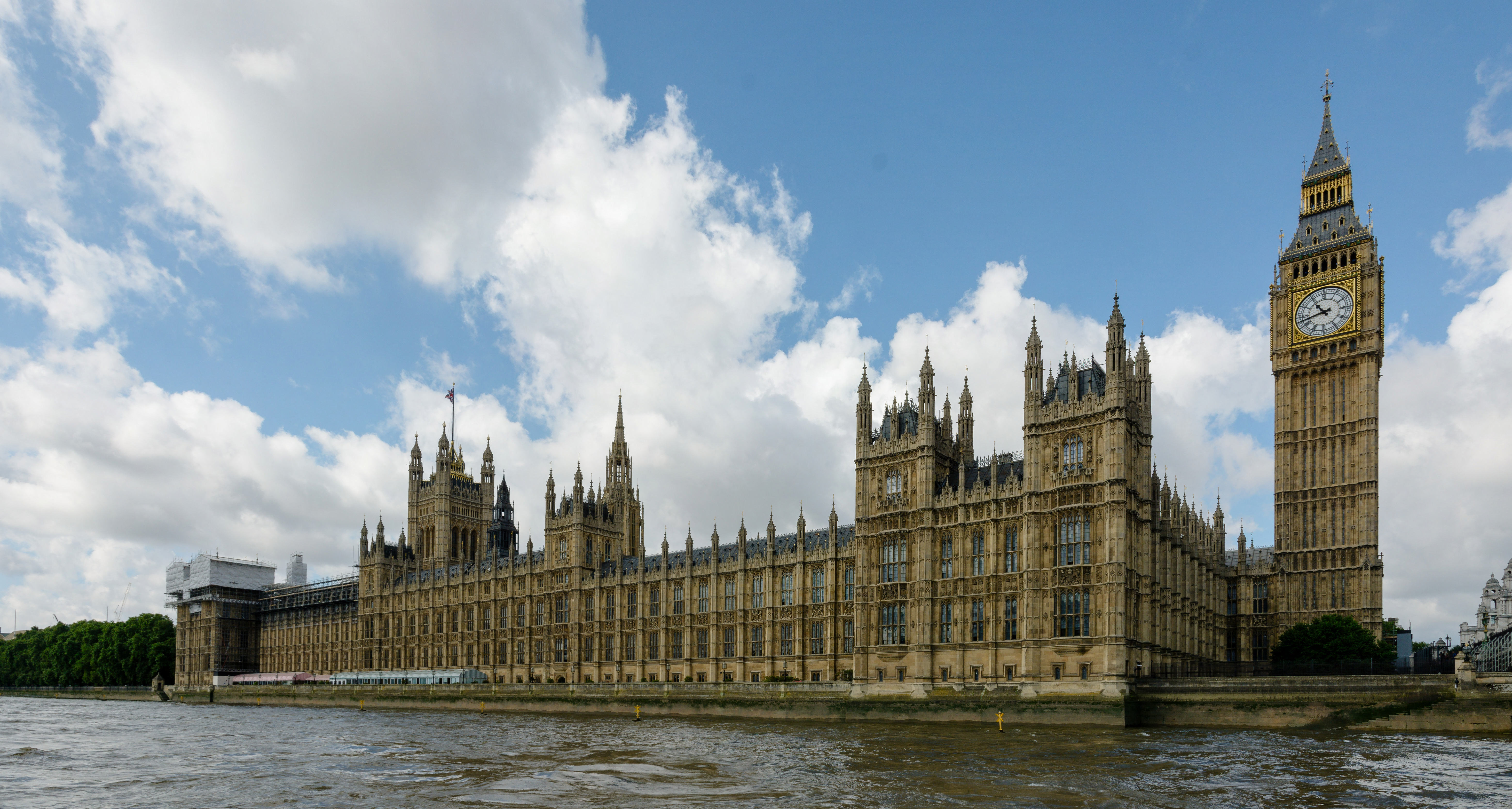 HOUSES OF PARLIAMENT THE PALACE OF WESTMINSTER Wikidata has entry Q62408 with data related to this building.